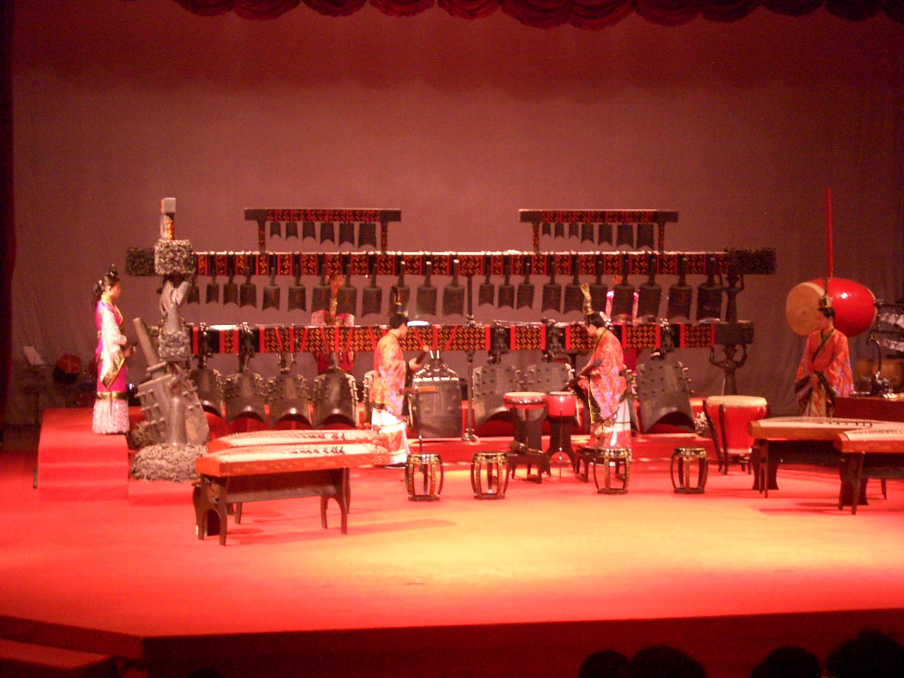 The bianzhong bell performance in Hubei Provincial Museum